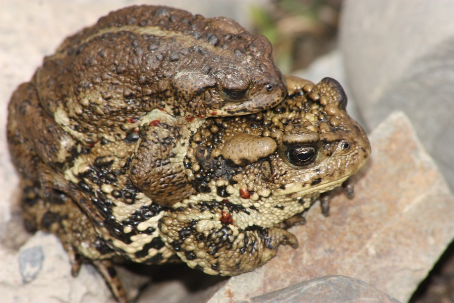 A pair of bufo tibetanus mating in Sichuan at an altitude of 4000 meters